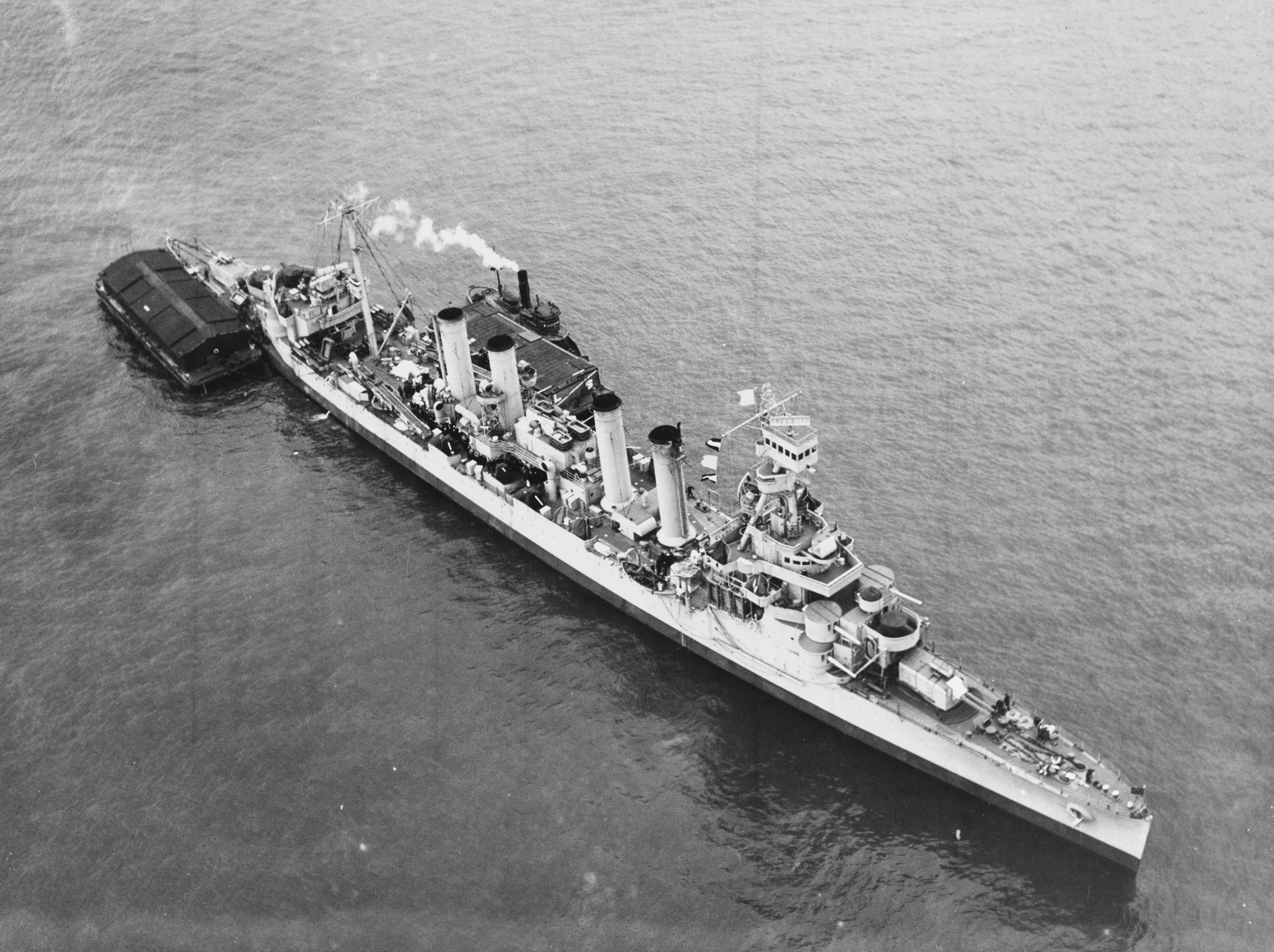 The U.S. Navy heavy cruiser USS Omaha (CL-4) in New York Harbor (USA), 10 February 1943.